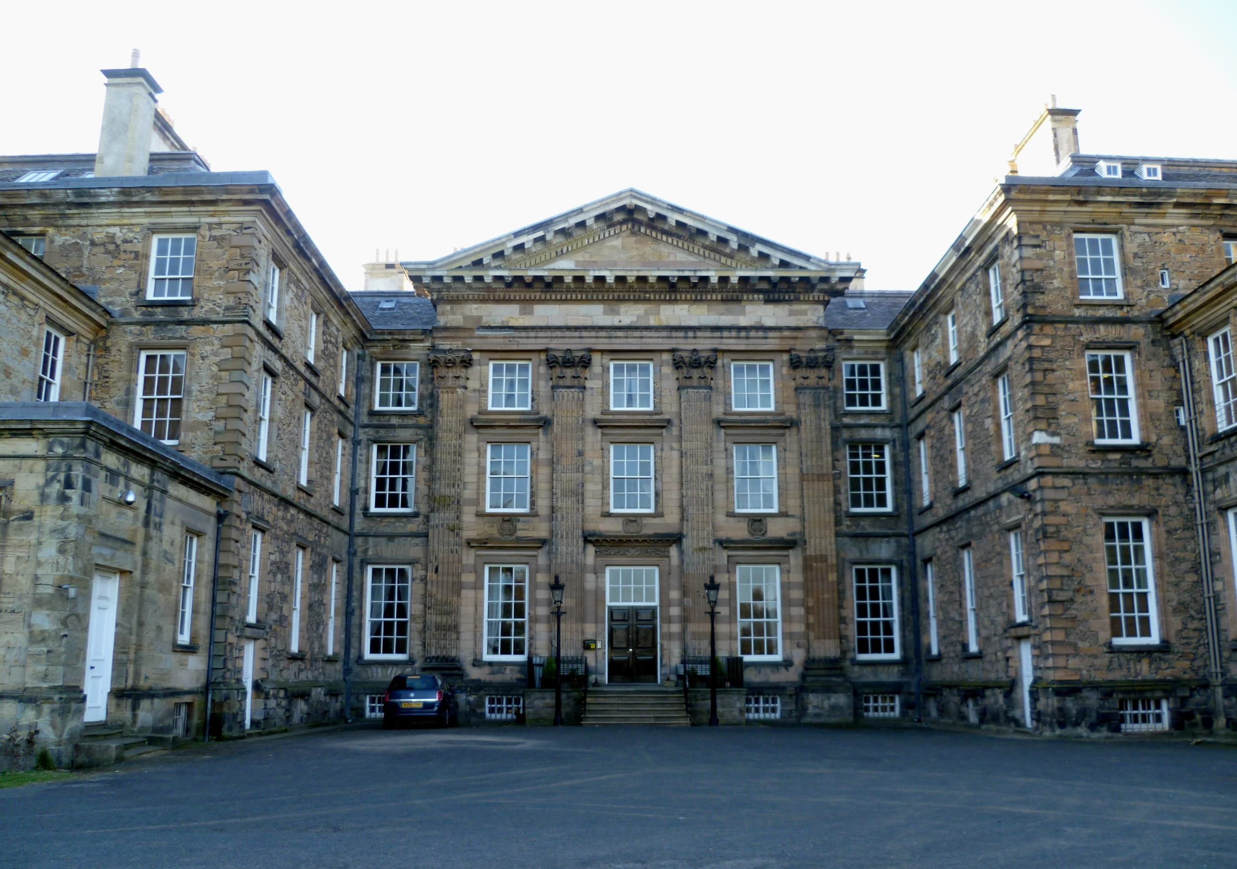 Frontage of Dalkeith Palace, now styling itself more modestly as Dalkeith House. The building is the work of several architects including additions by Vanbrugh. The main portion was built between 1702 and 1711. It is now the Scottish Campus of the University of Wisconsin